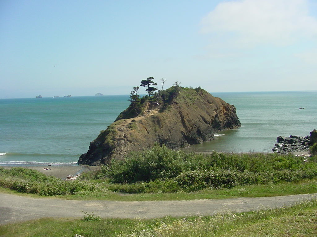 Author: jazedon Source: self-owned